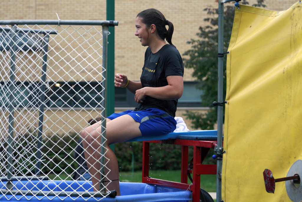 A soaked woman is getting ready for the next dunk during a Breast Cancer Awareness event.